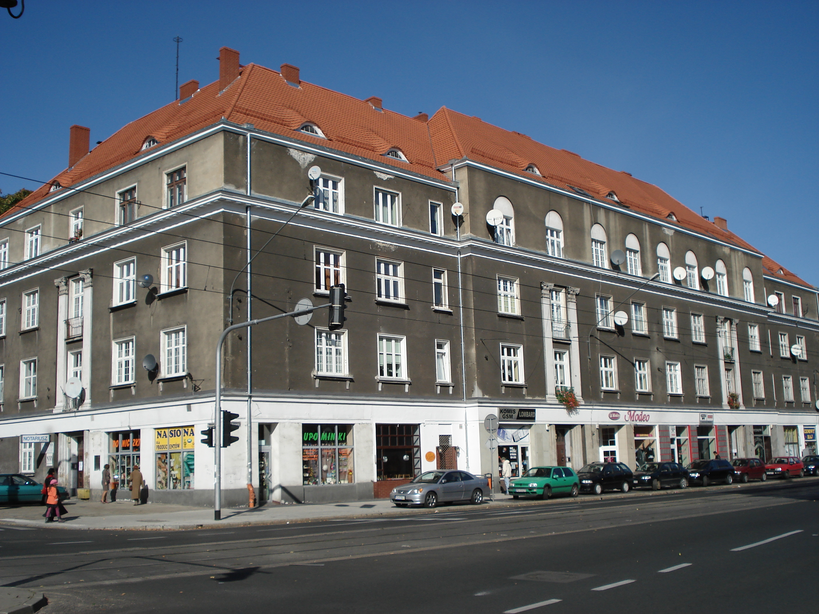 House 48/50 Głogowska Street in Poznań. Władysław Czarnecki, 1927-1928